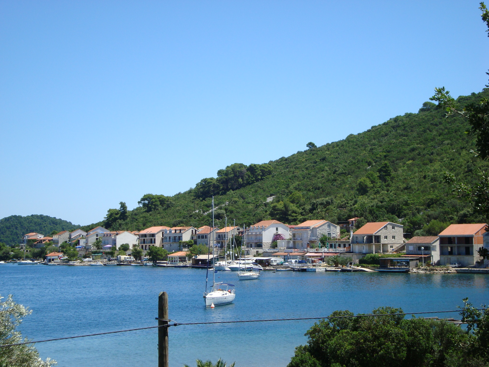 Polače, the biggest touristic place on the island of Mljet, Croatia